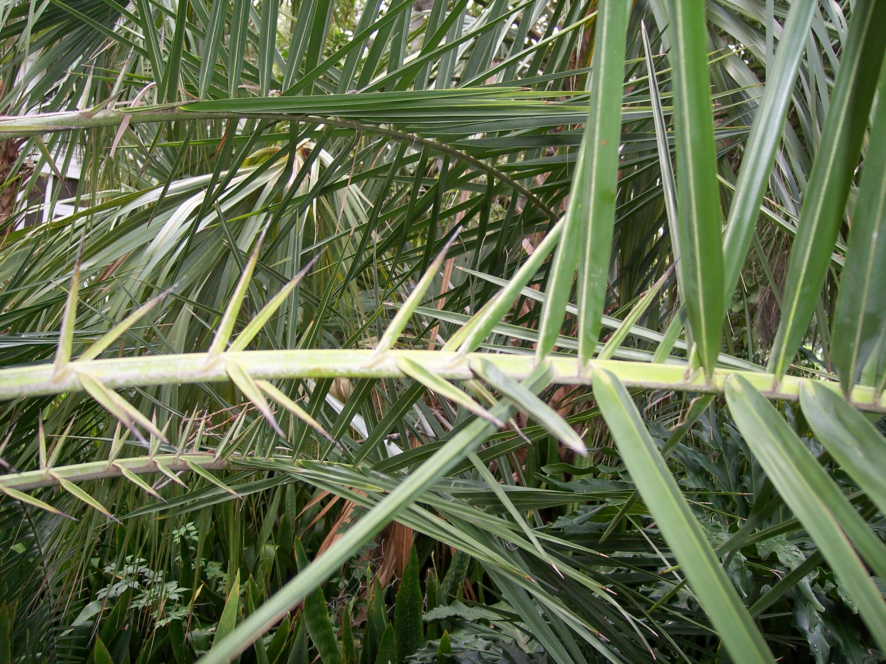 Acanthophylls at base of petiole in Phoenix species.